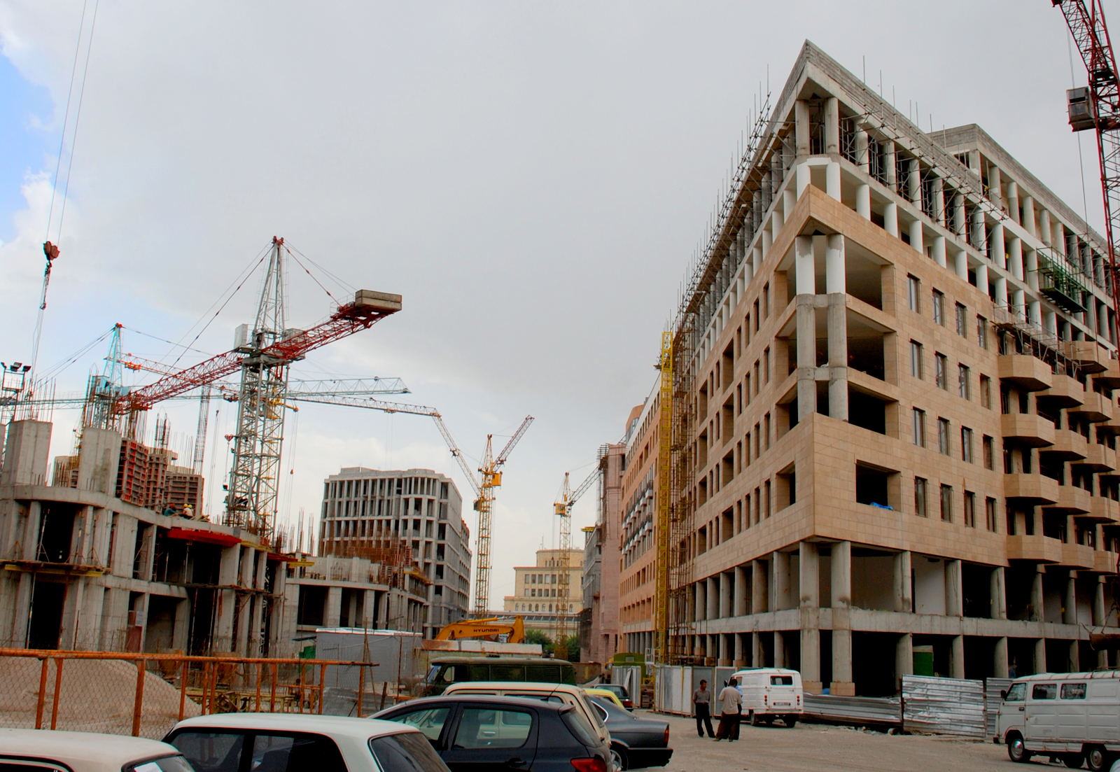 Northern Avenue Yerevan